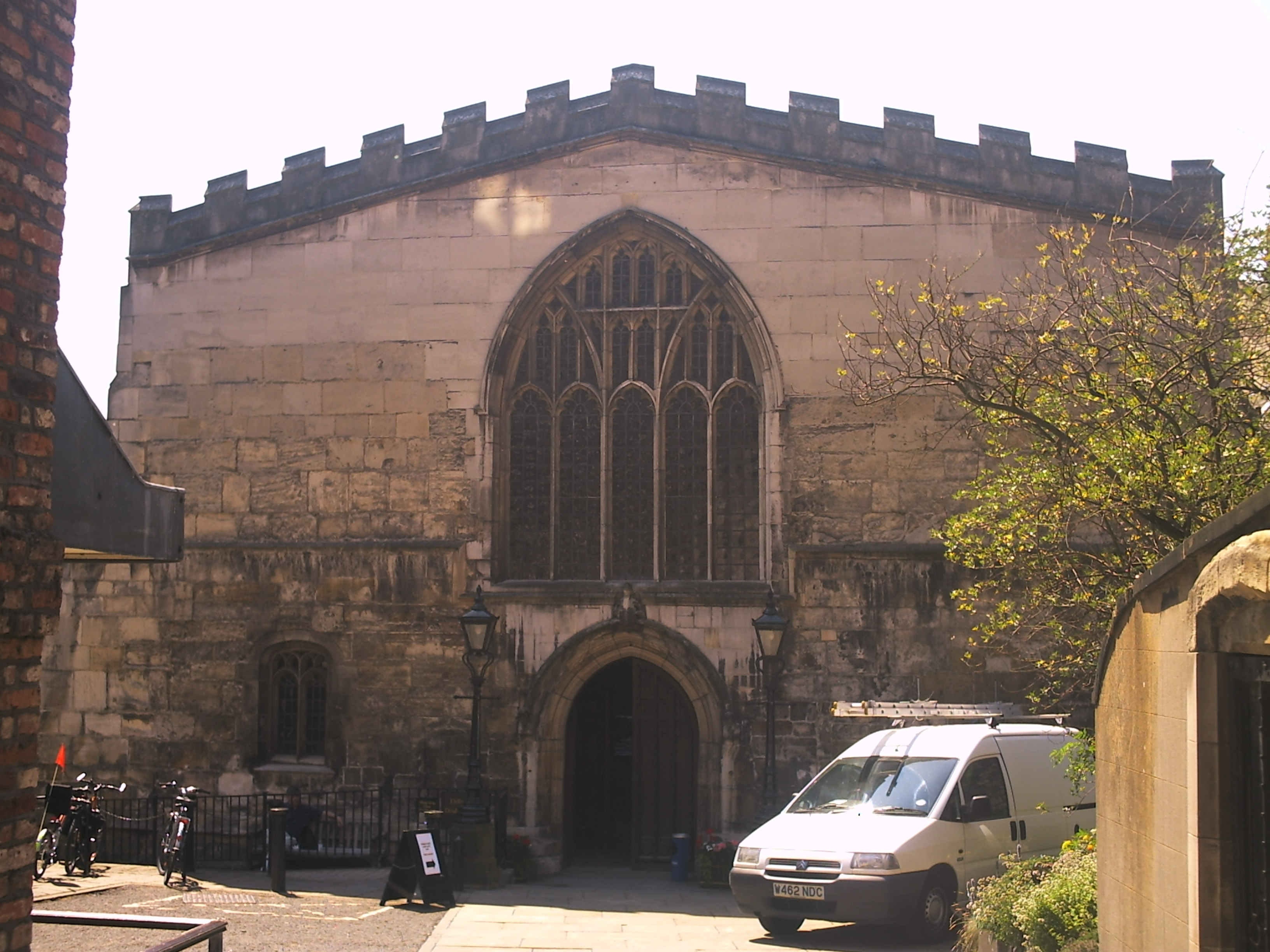 Souce: Keir Gravil